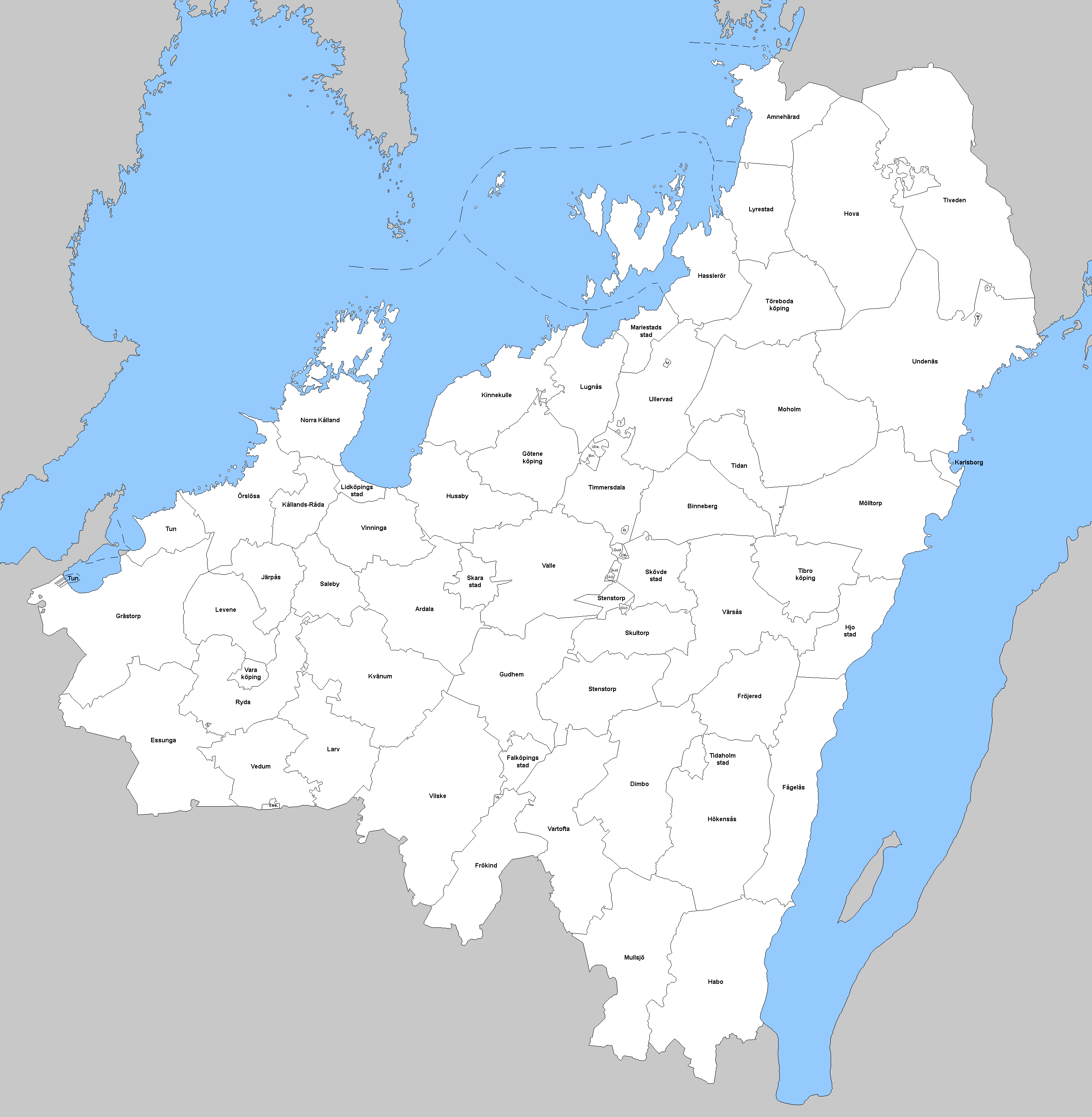 Old municipalities of Skaraborg, 1952. Map over the municipalities in the Skaraborg County between the years 1952 and 1971.